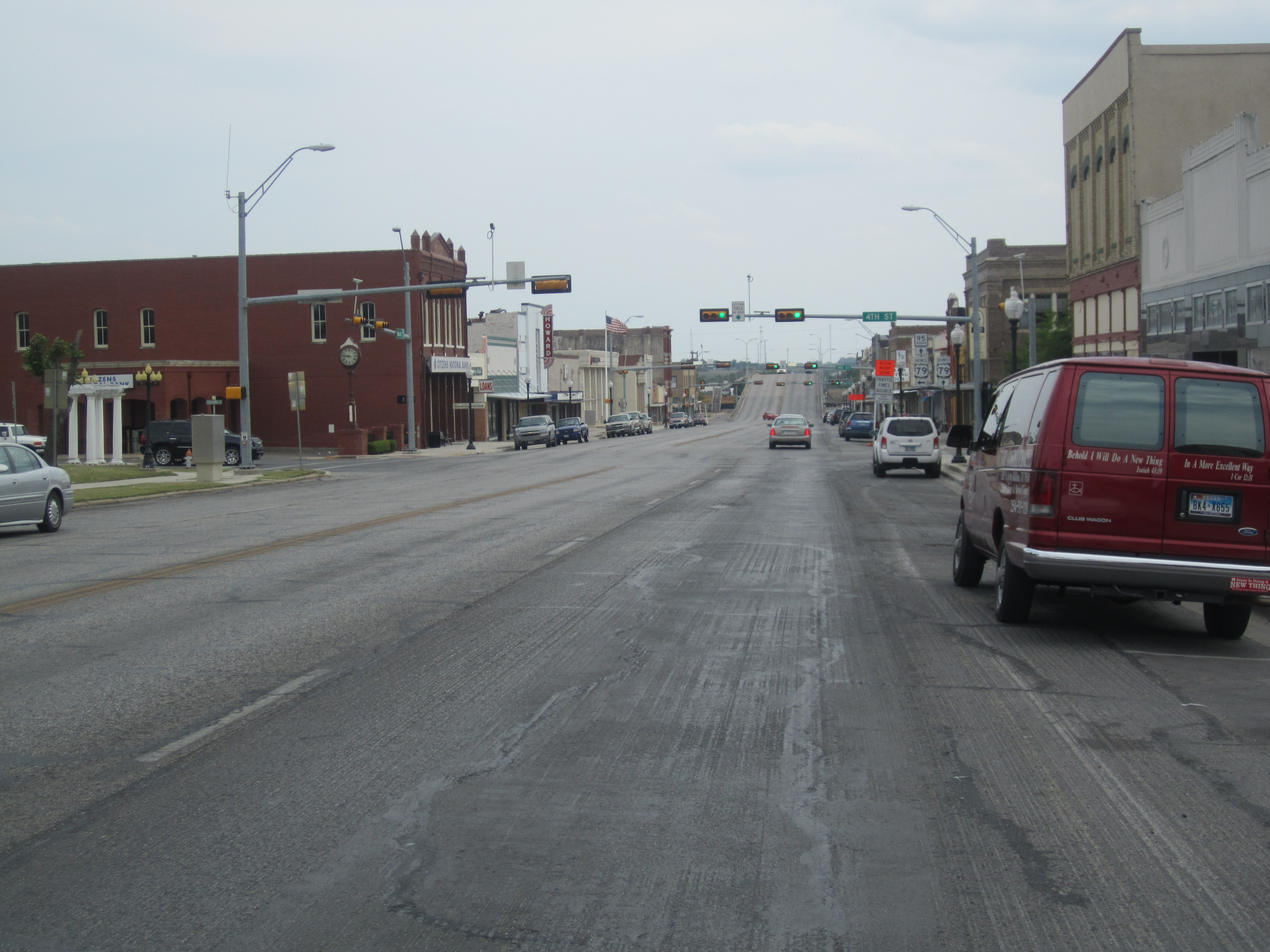 I took photo of downtown Taylor, TX, on TX State Hwy. 95 toward the intersection with U.S. Hwy. 79, with Canon camera.